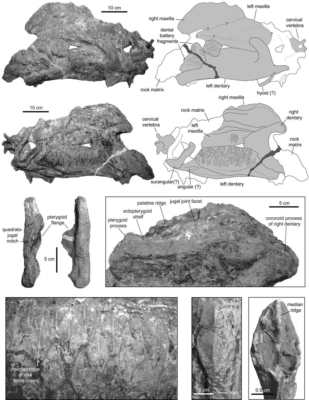 Facial and mandibular elements of a hadrosaurid dinosaur Saurolophus morrisi sp. nov. (LACM/CIT 2760, a subadult), lower Maastrichtian Moreno Formation of Panoche Hills, Fresno County, California, USA. A. Partially articulated maxillae and dentaries in lateral view. Photograph (A1), interpretative drawing (A2). B. Partially articulated maxillae and dentaries in medial view. Photograph (B1), interpretative drawing (B2), photograph of the right maxilla in lateral view (B3). C. Right quadrate in lateral (C1) and medial (C2) views. D. Dentary teeth of the posterior region of the dental battery in lingual view. E. Lingual view of a dentary teeth. F. Isolated dentary tooth crown in lingual view.